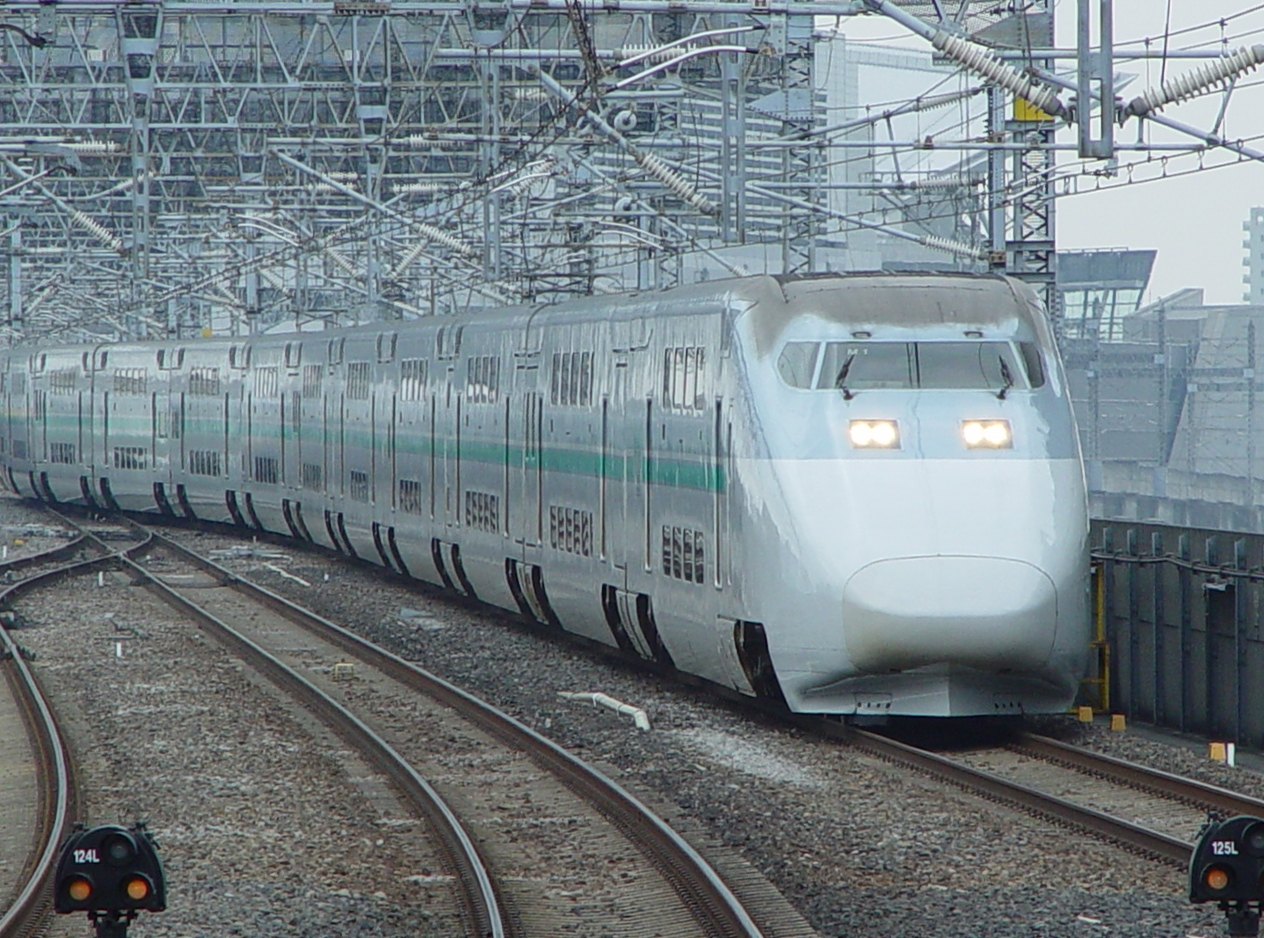 JR East E1 series shinkansen set M1 approaching Omiya Station on the down Max Asahi 317 service